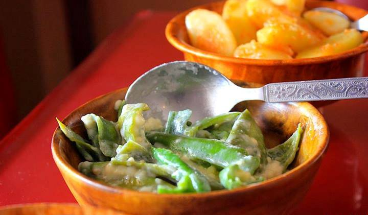 A traditional Bhutanese dish made from chilli and cheese